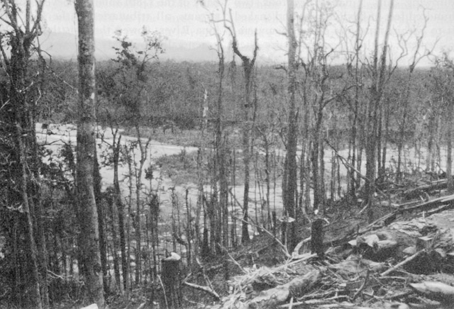 The scene on the North Knob (the northern part of Hill 206), within the US perimeter around Torokina following the Japanese counterattack of March 1944